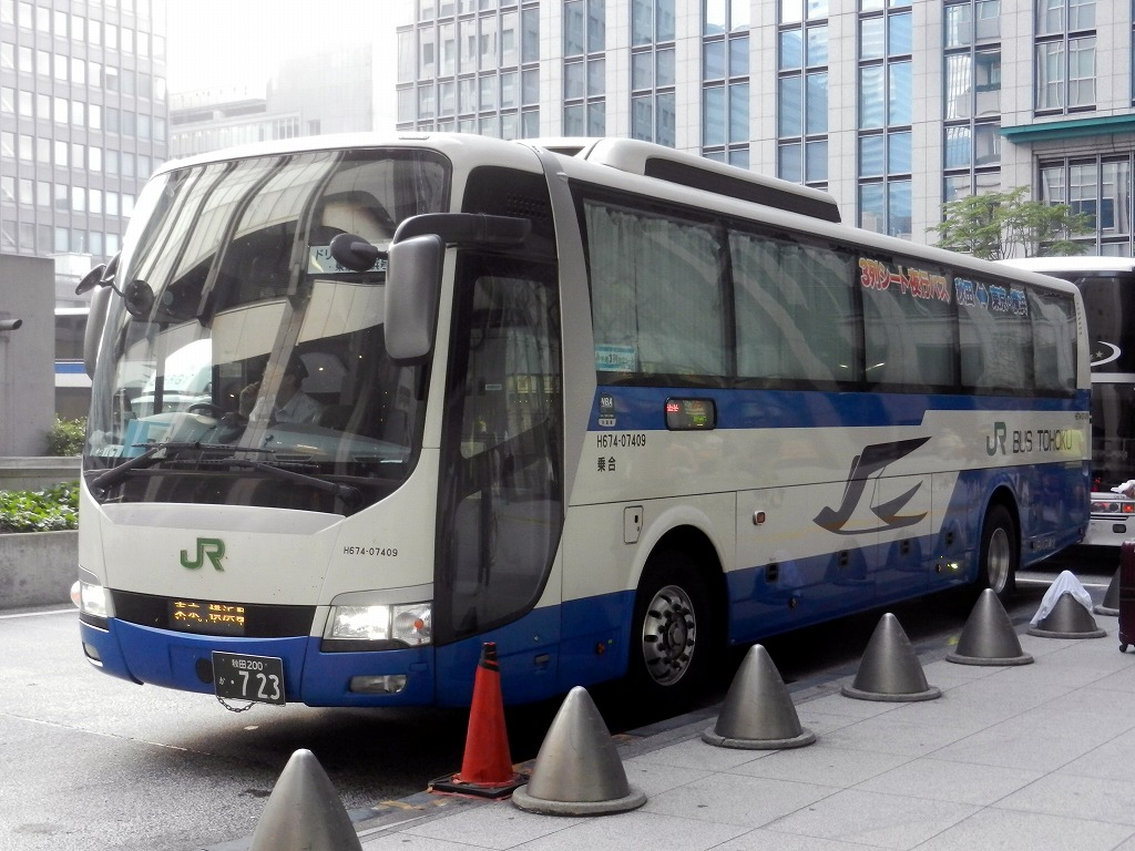 JR bus Tohoku Highwaybus "Dream-Akita-Yokohama"